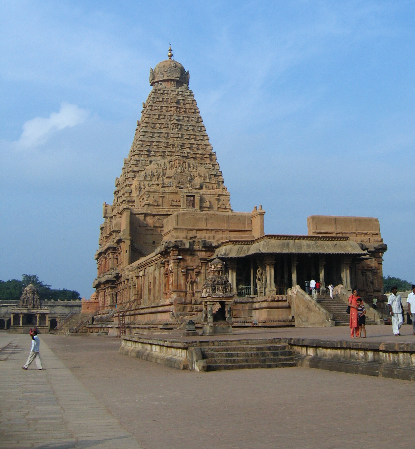 Thanjavur - Brihadisvara Temple